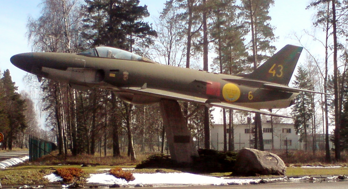 Saab A 32A Lansen at Royal Västergötland Air Force Wing